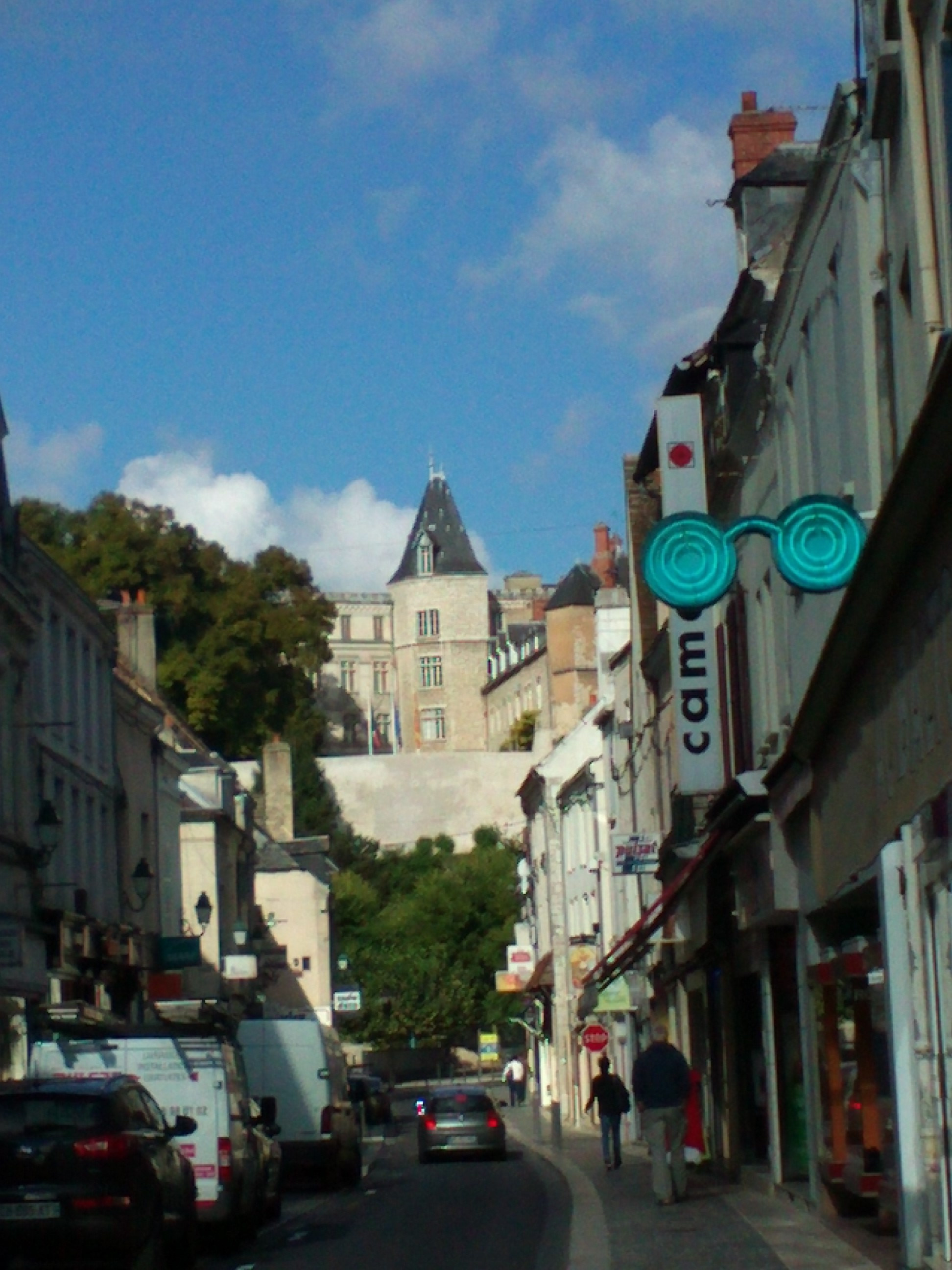 Montargis, Loiret, France. The castle, seen from the rue du Général Leclerc.